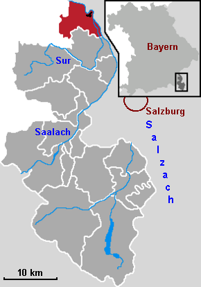 Locator maps of municipalities in Bavaria - District Berchtesgadener Land